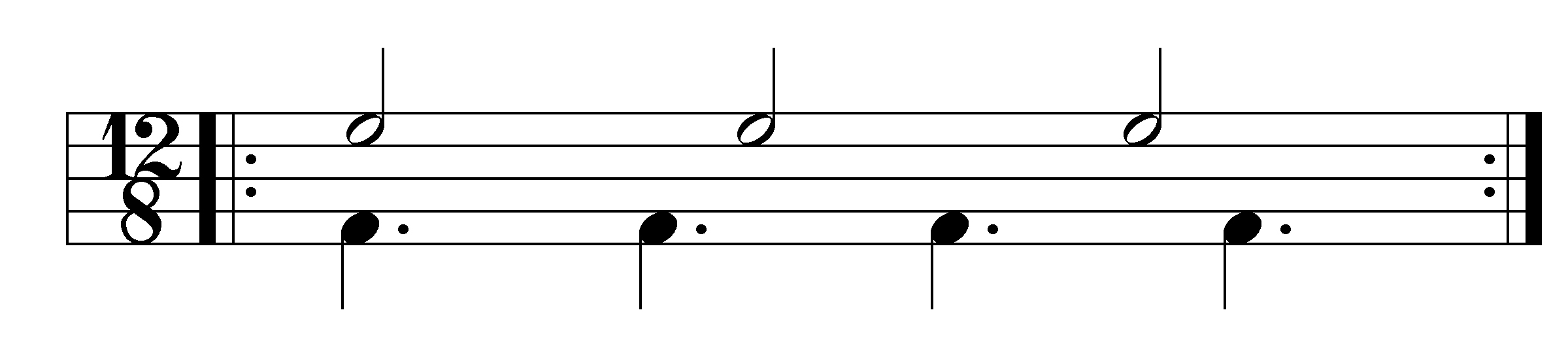 three half notes over four dotted quarter notes